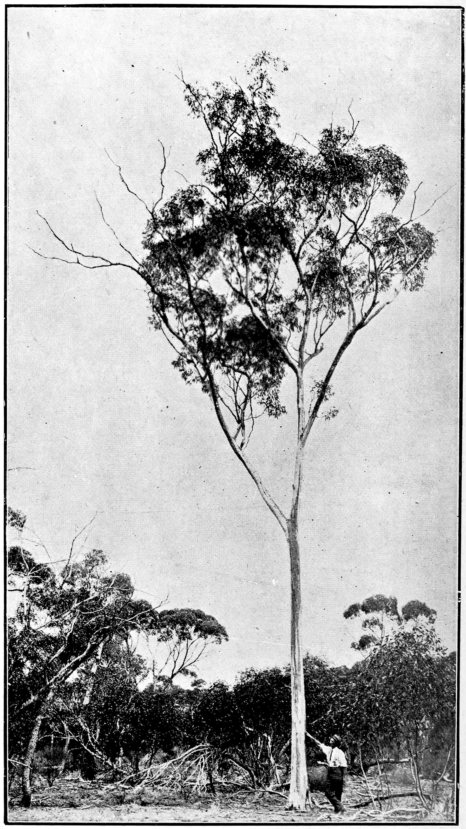 Photograph illustrating source, removed caption in title of image. Categorised by the systematic name given in text, or current synonym in taxonomy at commons.